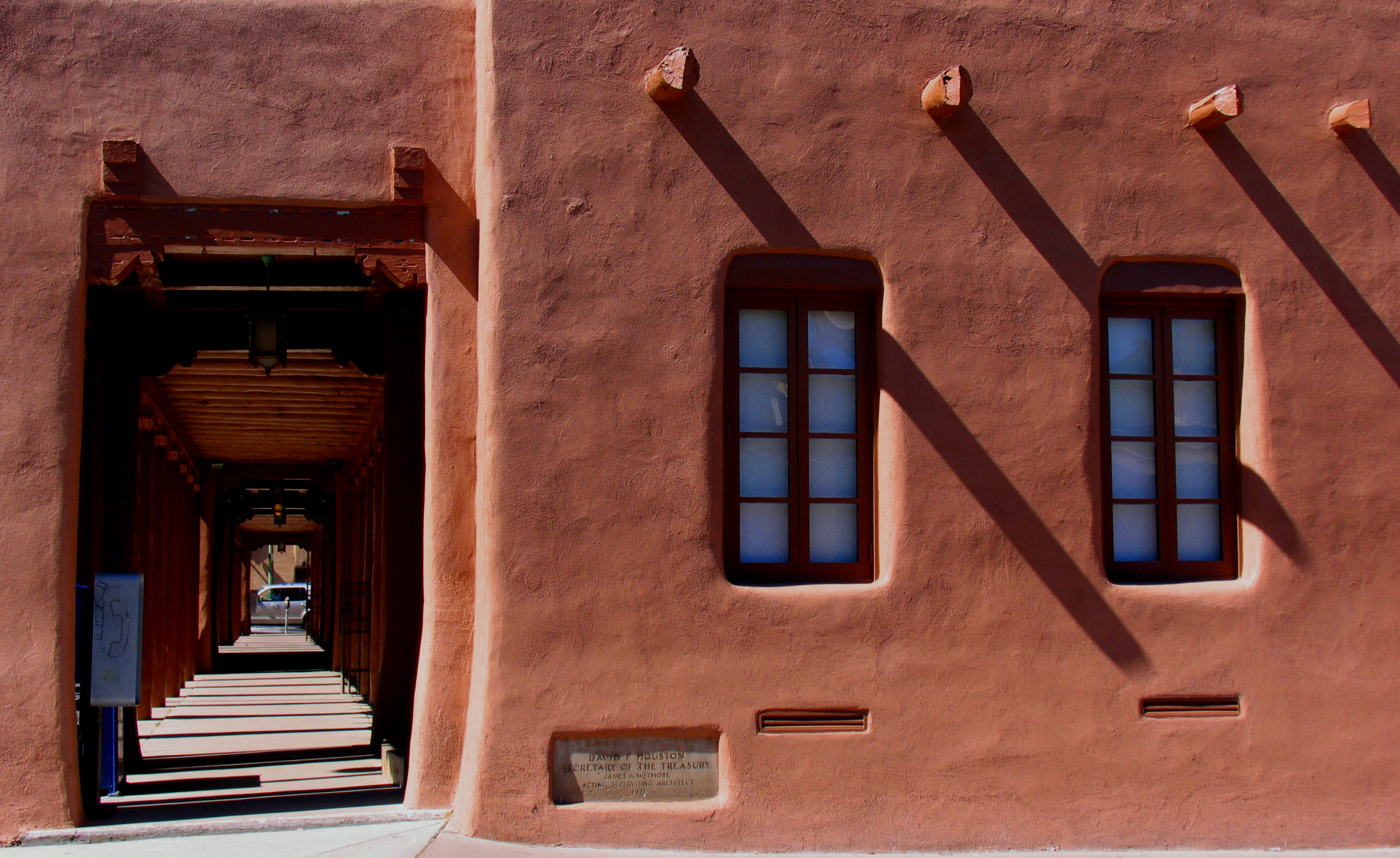 All the buildings are southwestern adobe in style.